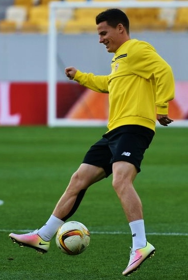 Kévin Gameiro